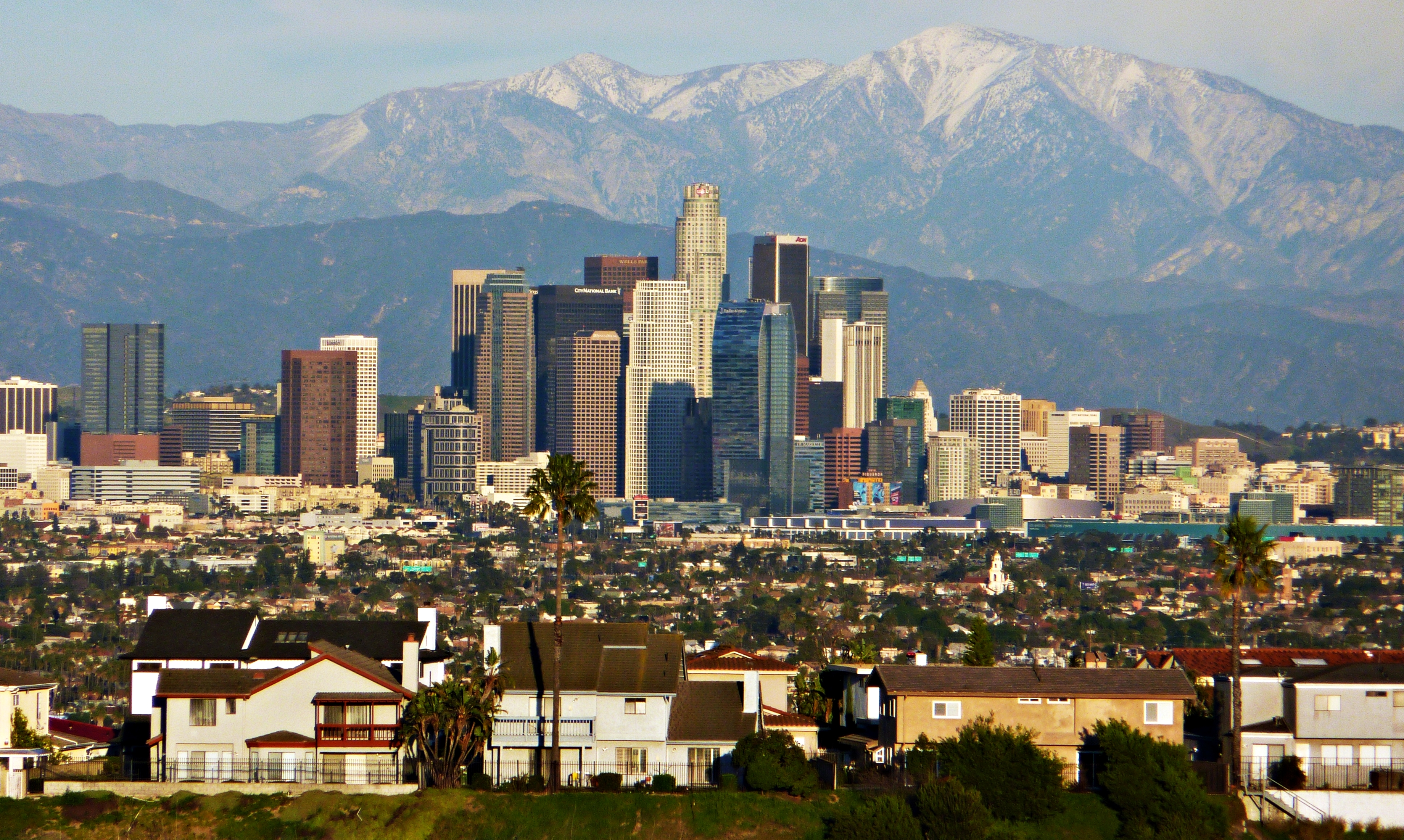 View from Kenneth Hahn State Recreation Area